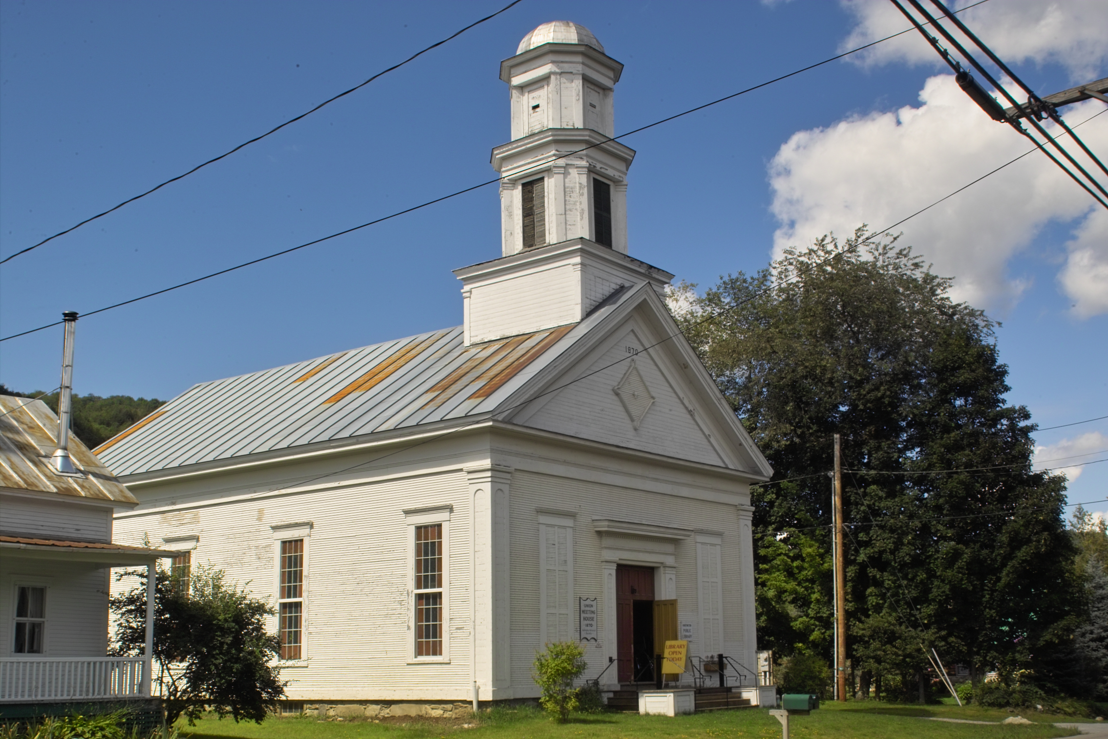 Union Meeting House/Library in Huntington, Vermont, USA.